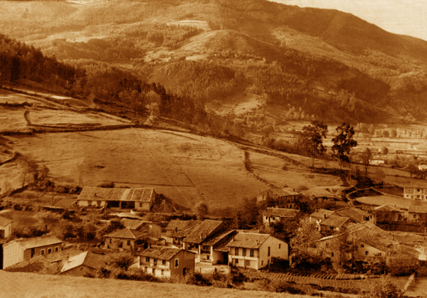 Picture History of the Town of San Mateo (Cantabria, SPAIN), in the foreground you can see the neighborhood Ispron back in the 60s.